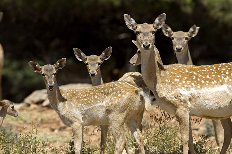 A herd of female Persian Fallow Deer (Dama dama mesopotamica) in northern israel